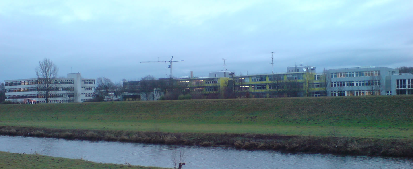 Hochschule Offenburg (University of Applied Sciences) - panorama from the Kinzig embankment